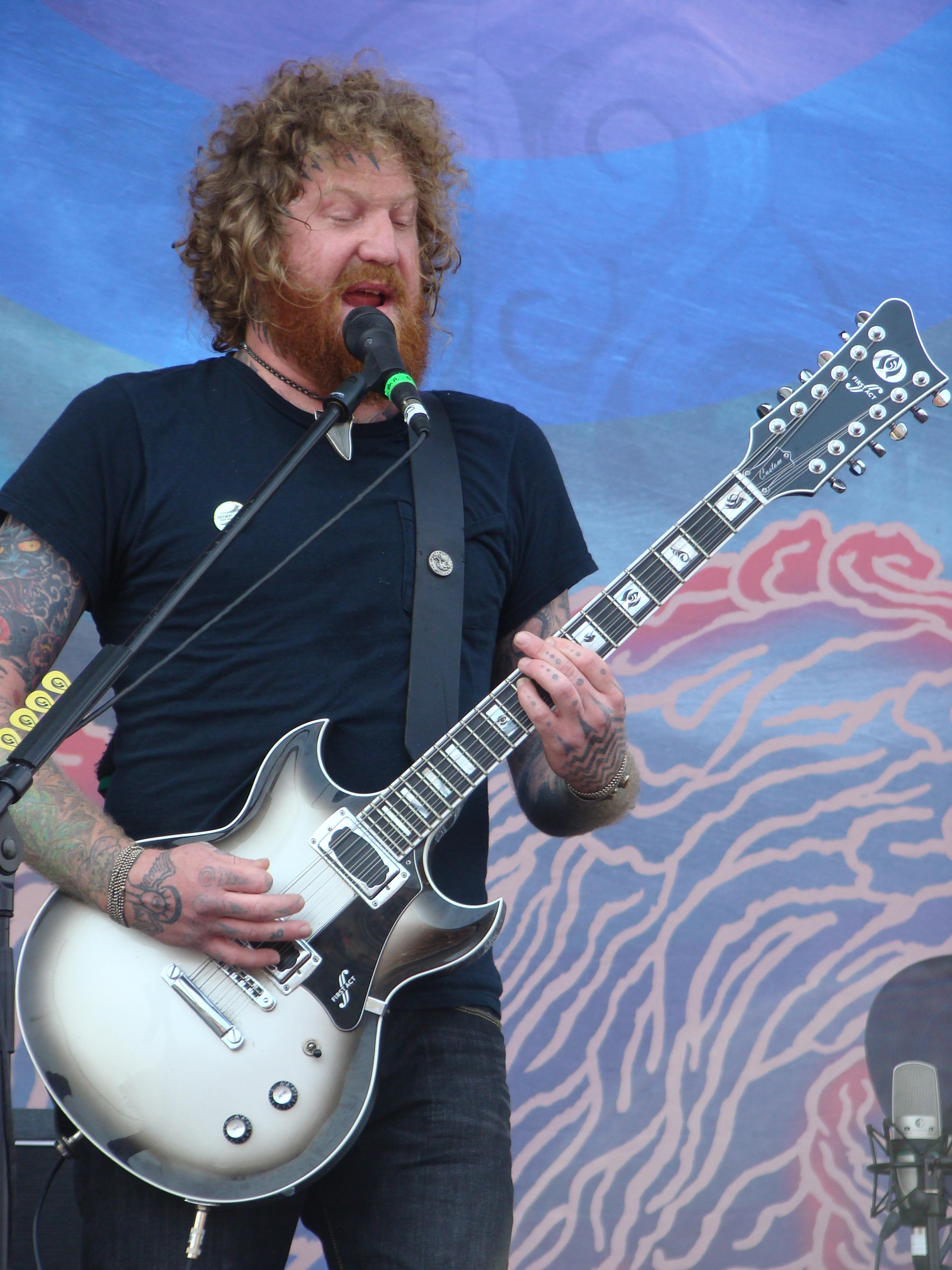 Brent Hinds of Mastodon playing live at Gods of Metal 2009.